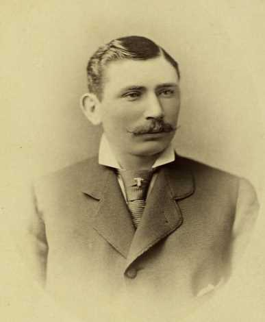 Image Title: Curry Foley Creator: Howland -- Photographer Additional Name(s): Spalding, A. G. (Albert Goodwill) -- Collector Medium: albumen print Specific Material Type: Photographs Item Physical Description: 1 photographic print : albumen print ; 16.5 x 10.8 cm. Item/Page/Plate: 2-14 Source: The A.G. Spalding Baseball Collection Source Description: 14 boxes and index., 14 - 87 cm. Location: Stephen A. Schwarzman Building / Photography Collection, Miriam and Ira D. Wallach Division of Art, Prints and Photographs Catalog Call Number: MFY 01-9000 and MFY+++01-9000 Digital ID: 56697 Record ID: 137502 Digital Item Published: 2-20-2004; updated 9-2-2008